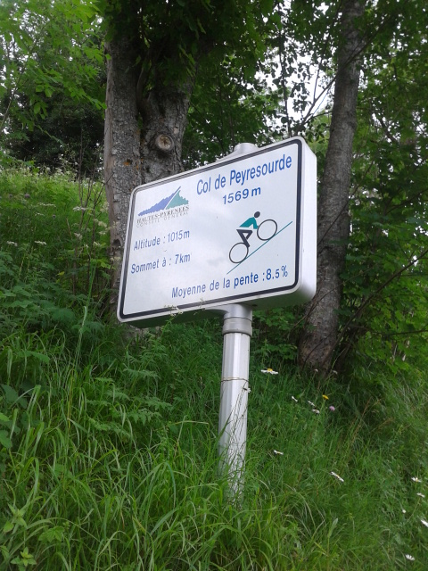 Mountain pass cycling milestone at the Col de Peyresourde in France ascending from Armenteule